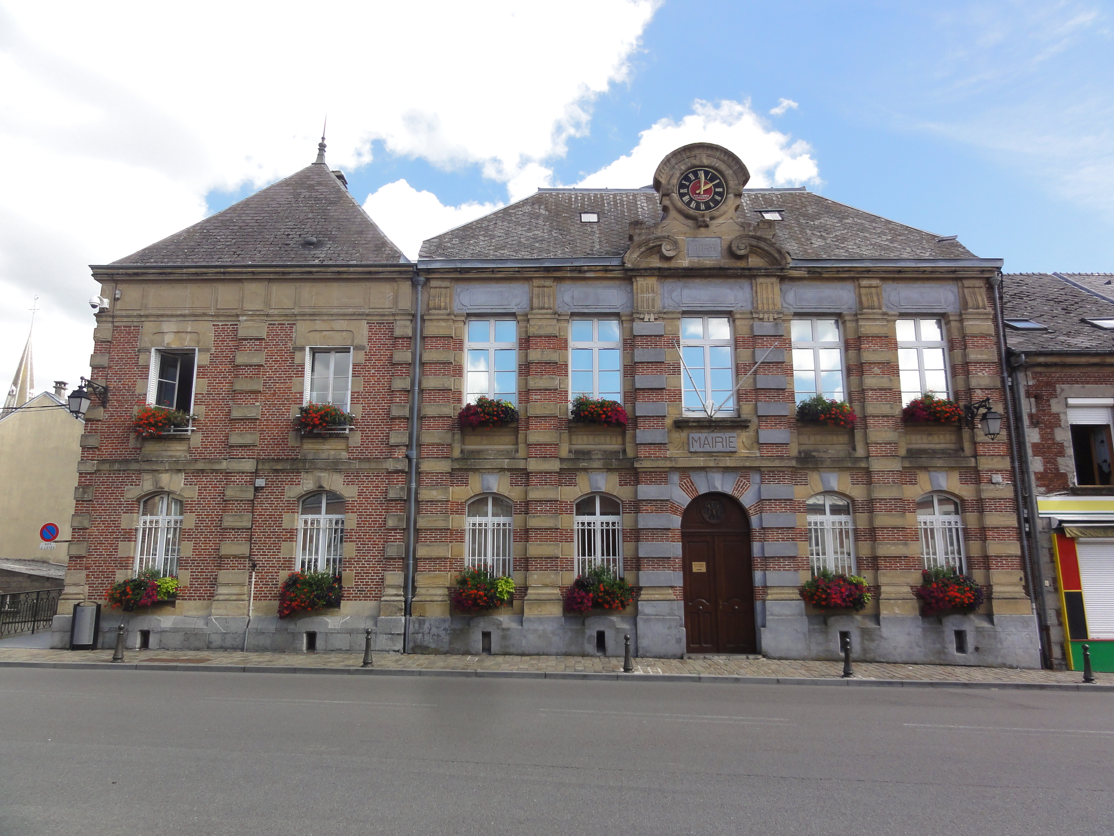 Maubert-Fontaine (Ardennes) mairie